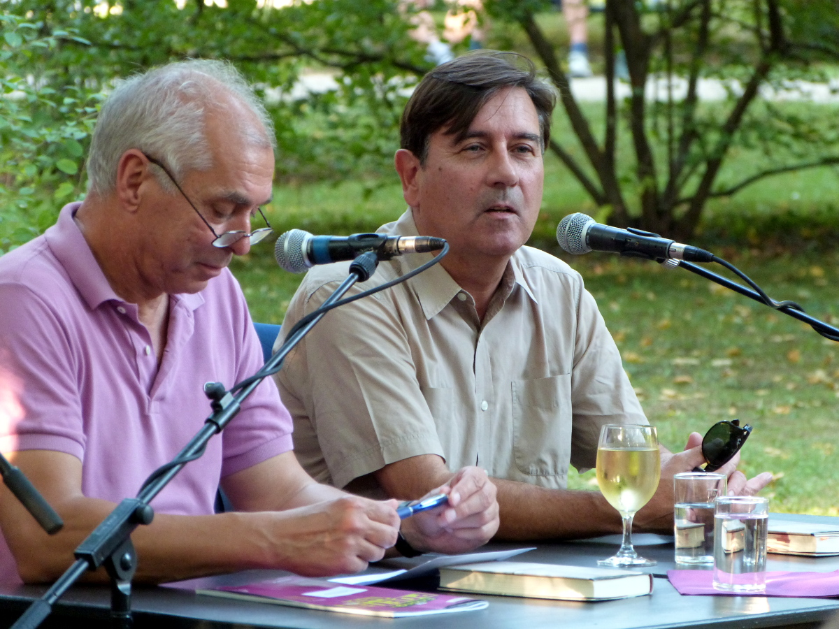 Swiss writer Alain Claude Sulzer (on the right) during an interview with literary critic Hajo Steinert at the Erlanger Poetenfest 2015